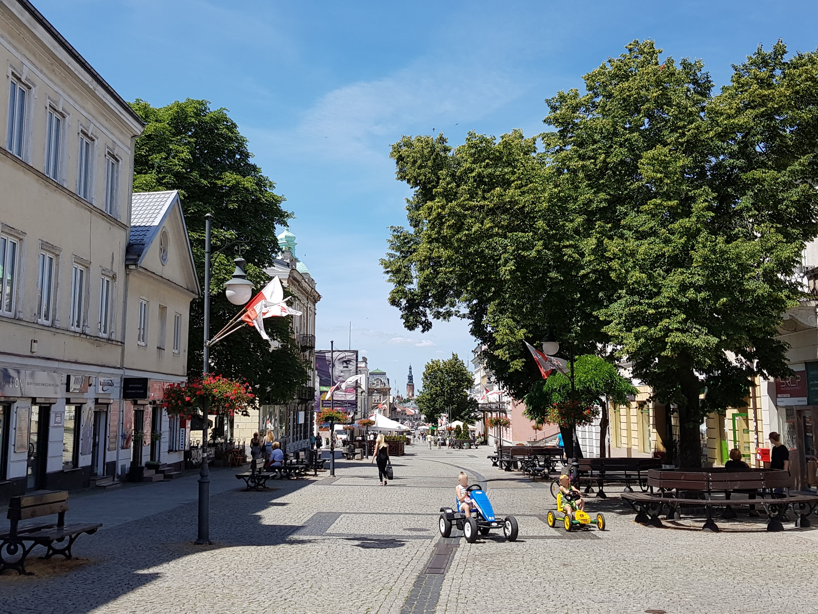 Żeromski Street in Radom, Poland. View towards the west.